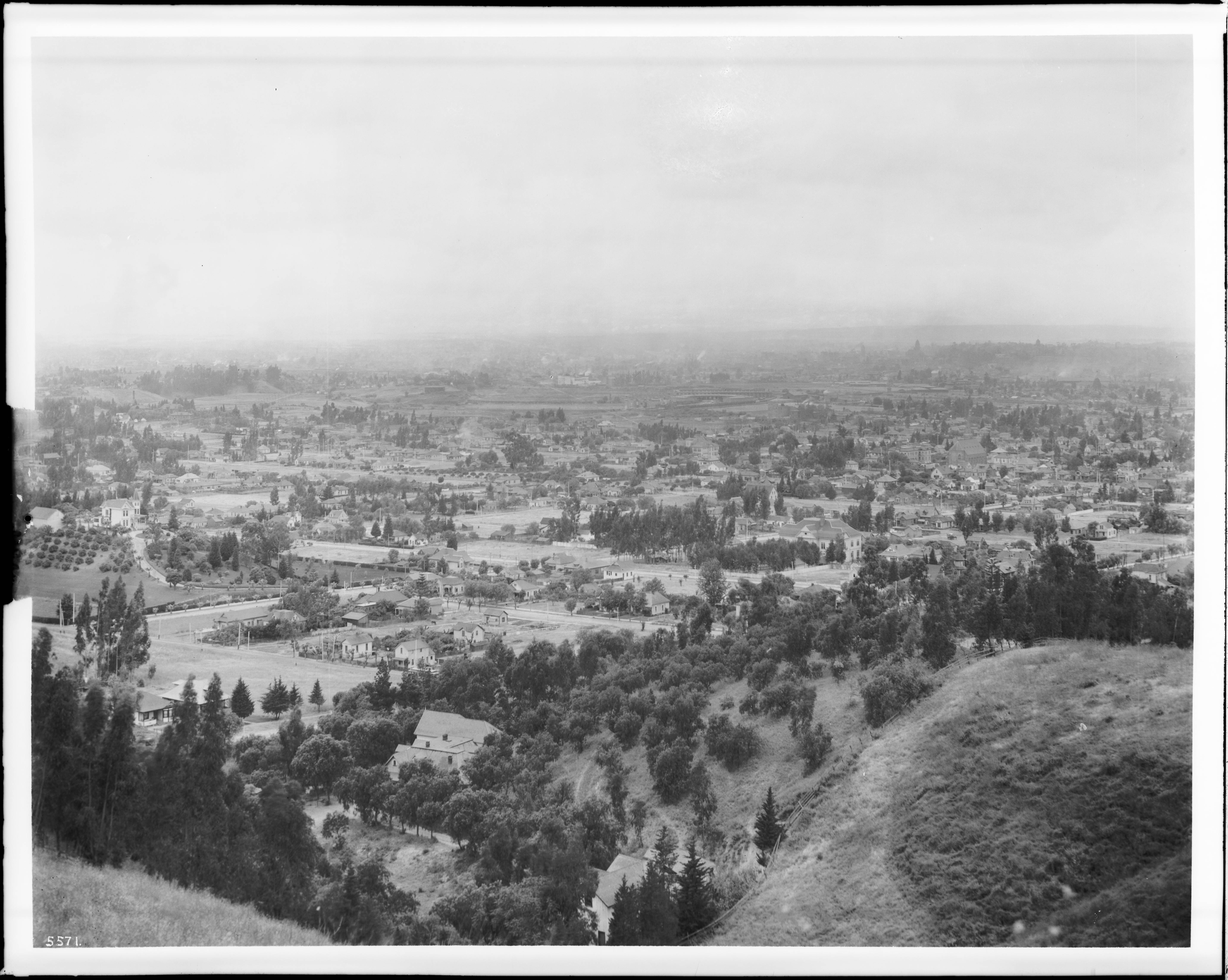 Panoramic view of East Los Angeles and Lincoln Heights, looking south to southwest, ca.1910 Photograph of a panoramic view of East Los Angeles and Lincoln Heights, looking south to southwest, ca.1910. Grids of residential blocks fill the landscape at right. A majority of the land at left is still undeveloped. Trees are sparsely scattered across the cities. A large number of trees populate the hilly area in the foreground. Call number: CHS-5572; CHS-5571 Filename: CHS-5572; CHS-5571 Coverage date: circa 1910 Part of collection: California Historical Society Collection, 1860-1960 Format: glass plate negatives Type: images Geographic subject (city or populated place): East Los Angeles; Lincoln Heights; Los Angeles Repository name: USC Libraries Special Collections Accession number: 5572; 5571 Microfiche number: 1-23-19 Part of subcollection: Title Insurance and Trust, and C.C. Pierce Photography Collection, 1860-1960 Repository address: Doheny Memorial Library, Los Angeles, CA 90089-0189 Geographic subject (country): USA Format (aacr2): 5 photographs : glass photonegatives, transparencies, photonegatives, b&w ; 21 x 26 cm., 10 x 13 cm.; 2 Photoprints : b&w ; 8 x 10 in. Rights: Digitally reproduced by the USC Digital Library; From the California Historical Society Collection at the University of Southern California Subject (adlf): cities Project: USC Repository Contributing entity: California Historical Society Date created: circa 1910 Publisher (of the digital version): University of Southern California. Libraries Format (aat): negatives (photographic); transparencies; photographs Geographic subject (state): California Subject (file heading): Los Angeles -- East Los Angeles; Los Angeles -- General views (1910-1913) Legacy record ID: chs-m2200; USC-0-1-1-2261; USC-1-1-1-2715; USC-1-1-1-2722; USC-1-1-1-2260 Access conditions: Send requests to address or e-mail given. Phone (213) 821-2366; fax (213) 740-2343. Geographic subject (county): Los Angeles Subject (lcsh): Views